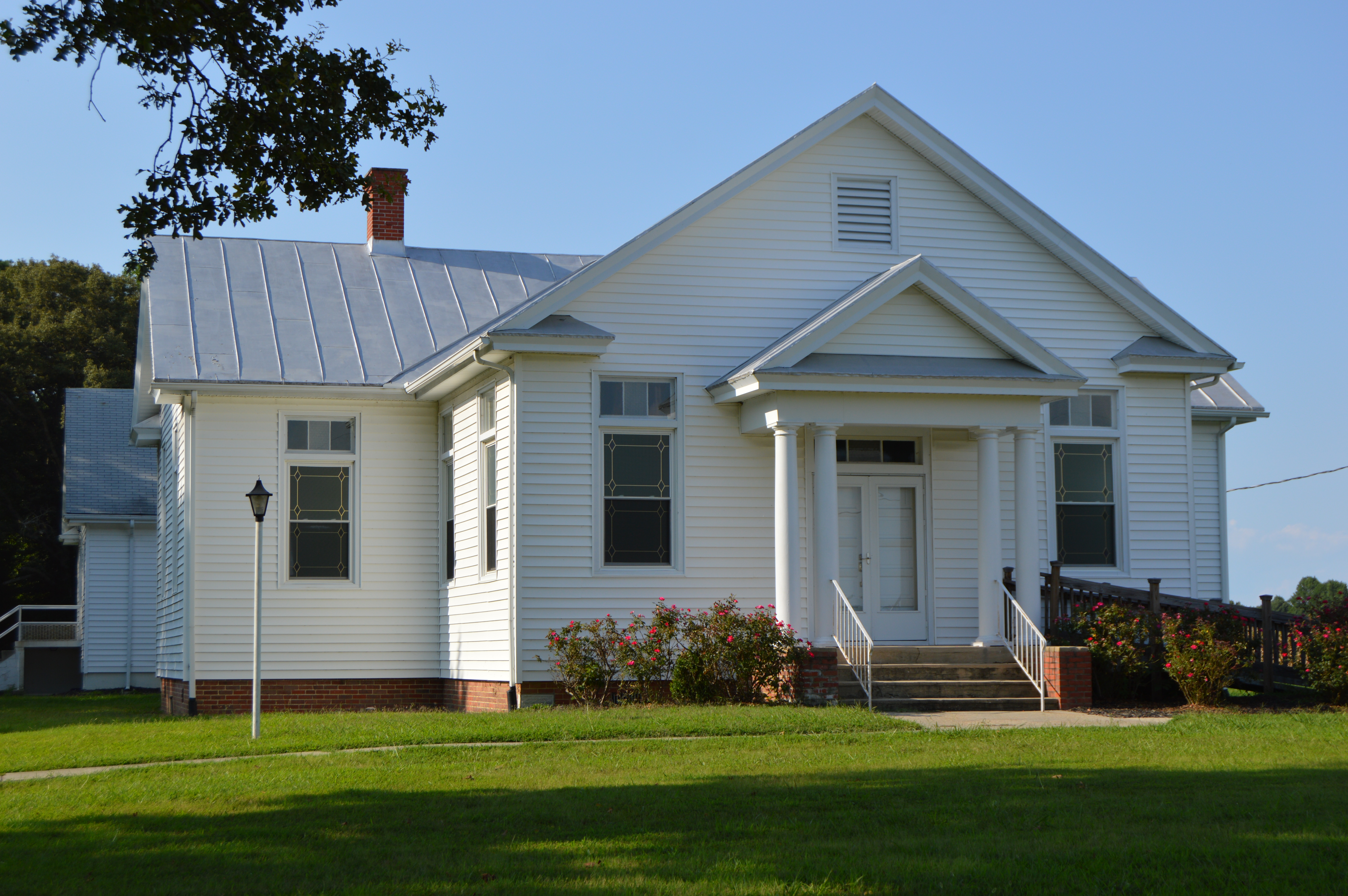 Front of Wicomico Baptist Church, located on Mila Road at Remo in Northumberland County, Virginia, United States.